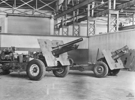 Australian War Memorial image 085823. A standard (left) and a Short (right) variants of the 25-pounder gun